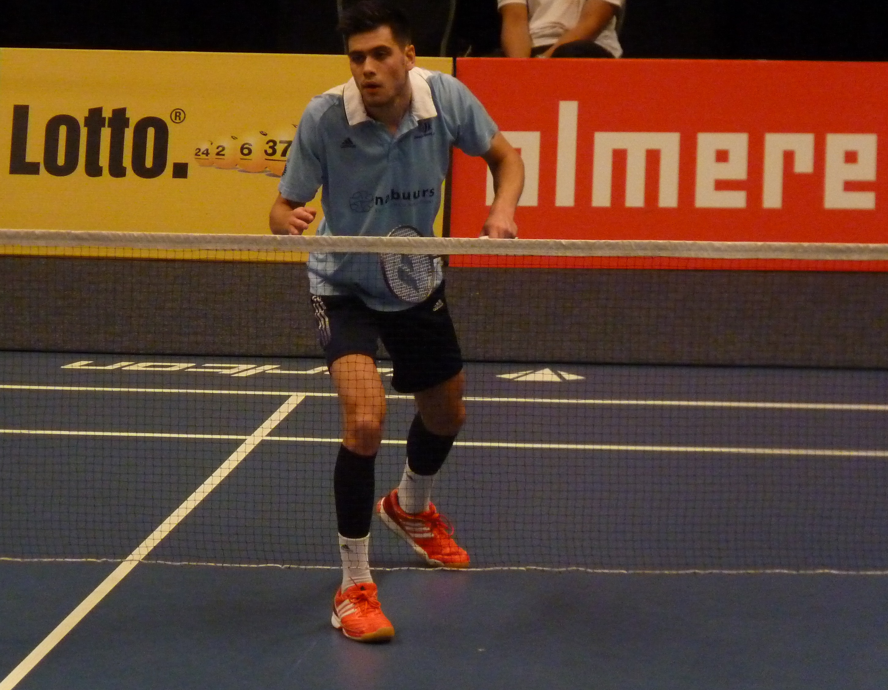 Nick Fransman (NED)